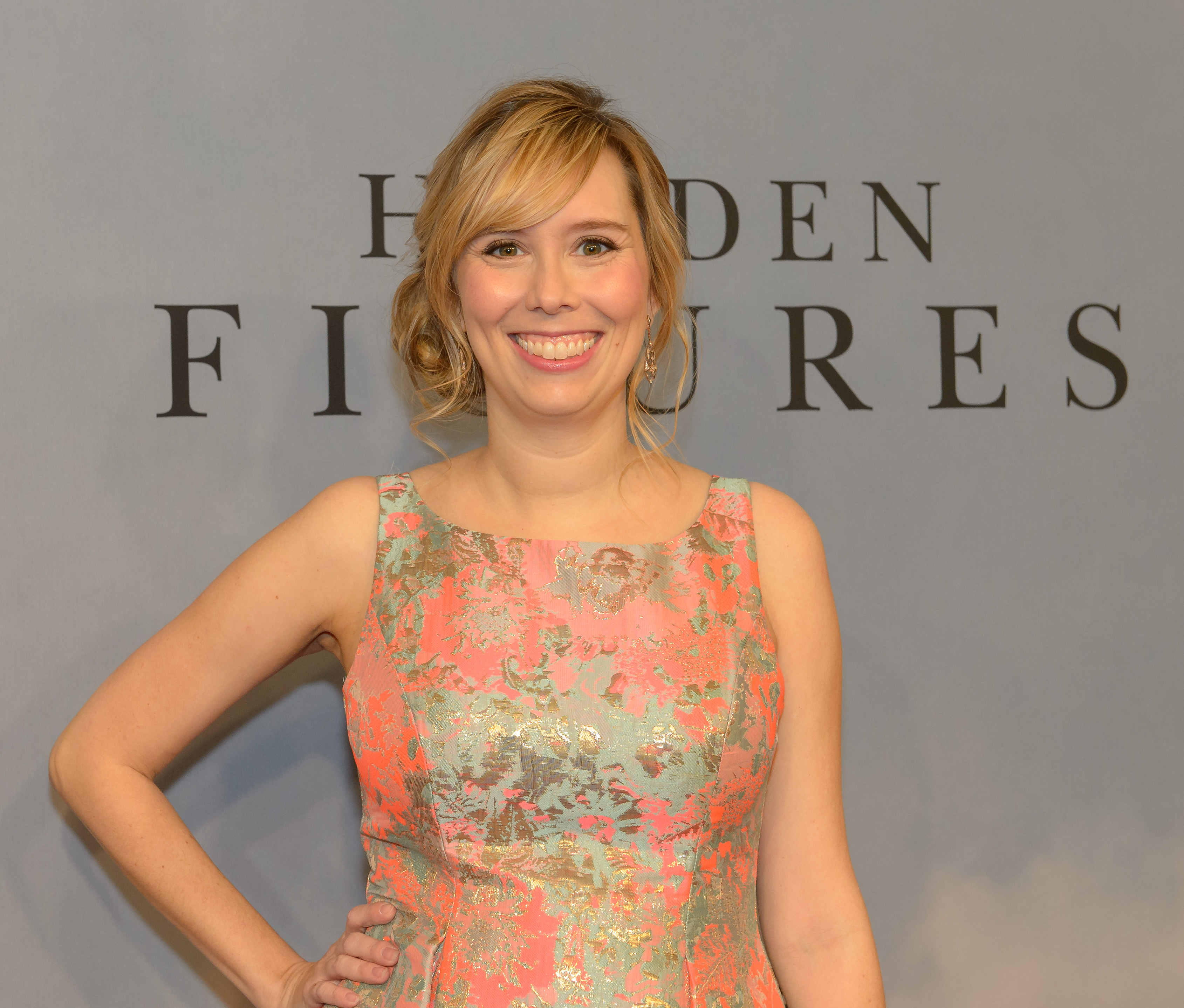 Writer Allison Schroeder arrives on the red carpet for the global celebration of the film "Hidden Figures" at the SVA Theatre, Saturday, Dec. 10, 2016 in New York. The film is based on the book of the same title, by Margot Lee Shetterly, and chronicles the lives of Katherine Johnson, Dorothy Vaughan and Mary Jackson -- African-American women working at NASA as “human computers,” who were critical to the success of John Glenn’s Friendship 7 mission in 1962.